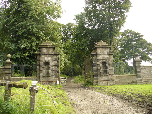 The Gates of Emmott Hall Emott Hall was occupied by the Emmott family until the 1940's and demolished in about 1967.